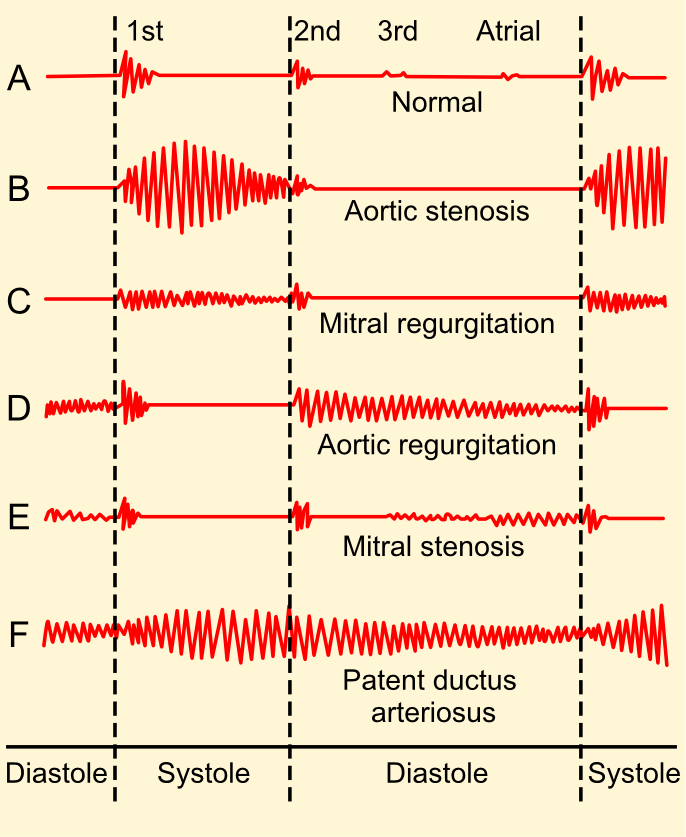 Phonocardiograms from normal and abnormal heart sounds